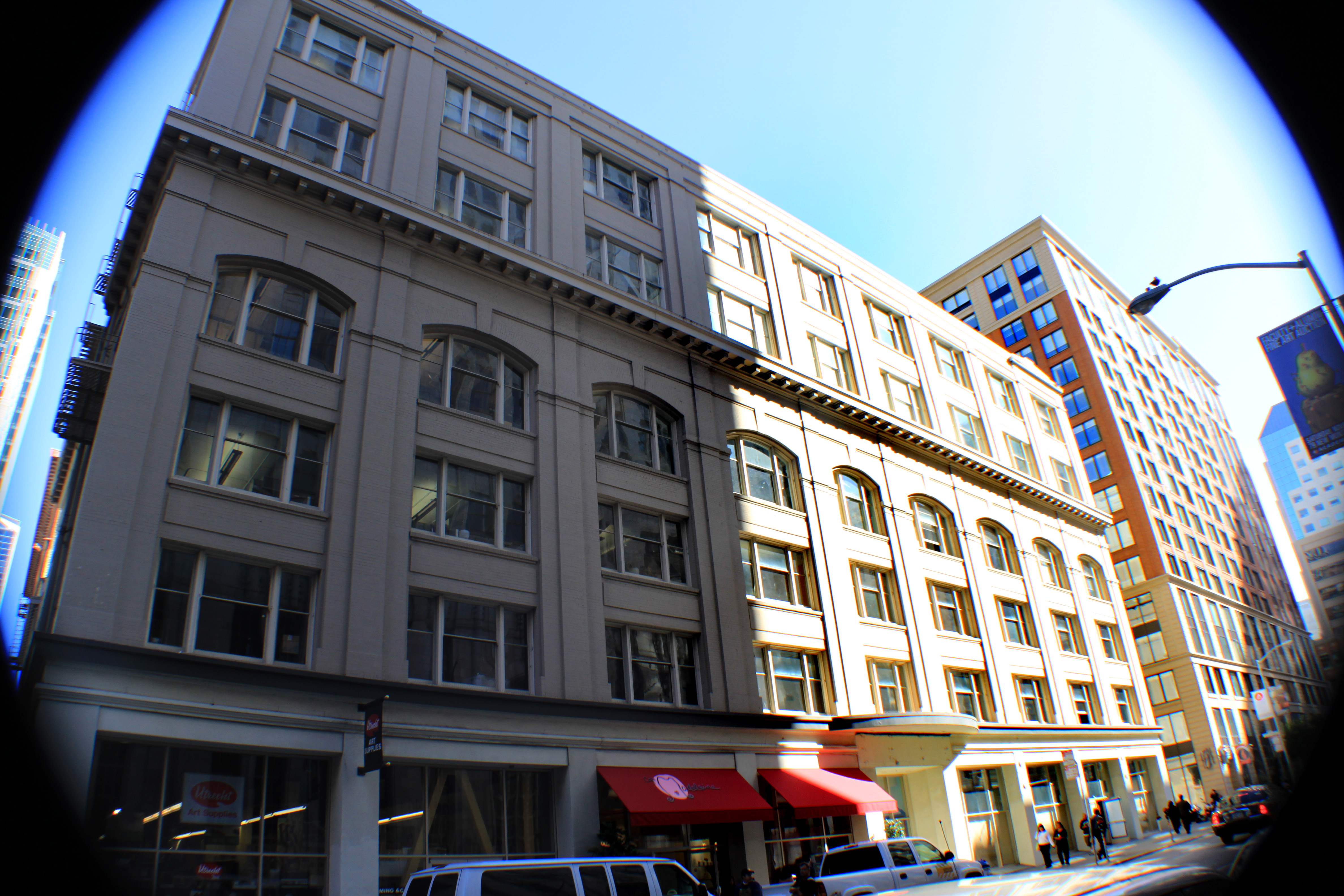 Exterior of the new Wikimedia Foundation office